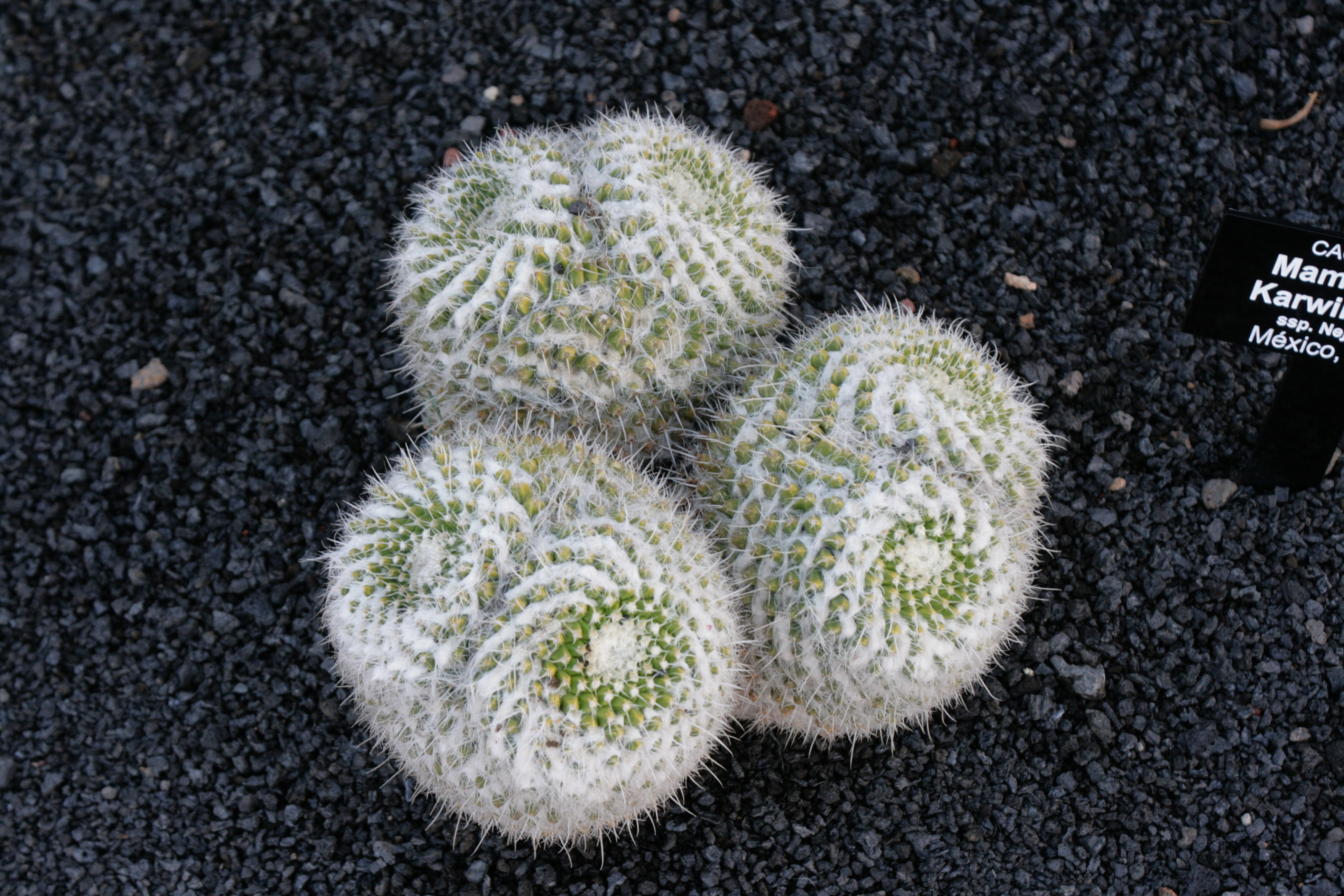 Mammillaria karwinskiana ssp. nejapensis grown in the Botanical Garden “Jardin de Cactus” in Guatiza, Teguise, Lanzarote, Canary Islands